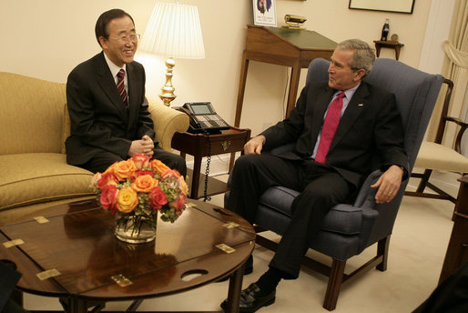 President George W. Bush talks with United Nations Secretary-General Designate Ban Ki-moon of the Republic of Korea Tuesday, Oct. 17, 2006, at the White House. White House photo by Eric Draper